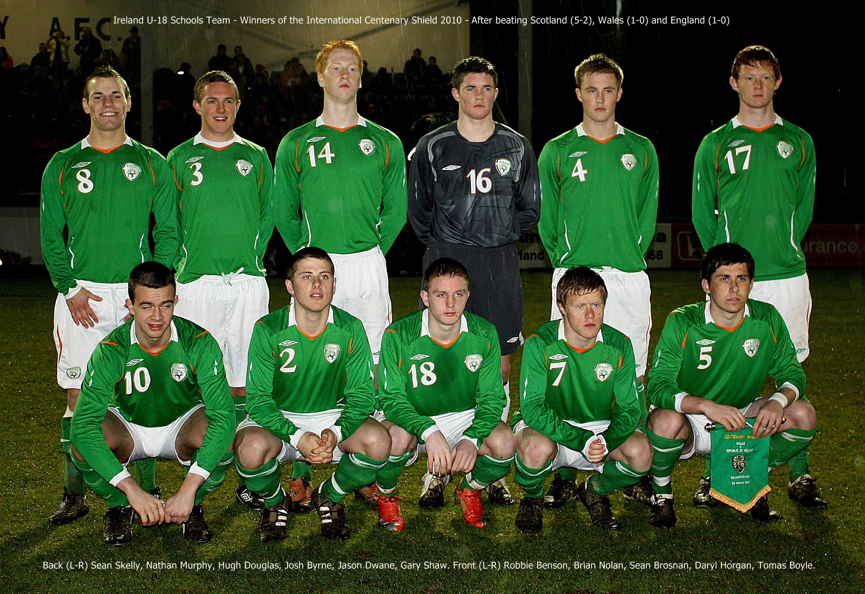 The Irish Schools Team which won the International Centenary Shield in 2010. Back (L-R) Sean Skelly, Nathan Murphy, Hugh Douglas, Josh Byrne, Jason Dwane, Gary Shaw. Front (L-R) Robbie Benson, Brian Nolan, Sean Brosnan, Daryl Horgan, Tomas Boyle (Capt)